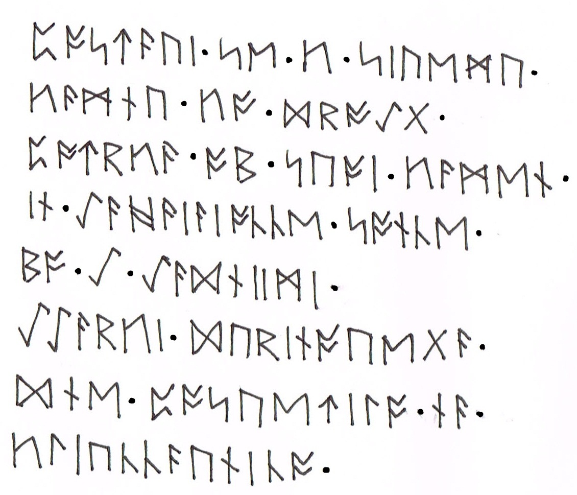 Transcription of runes from Slovenian translation of J.R.R. Tolkien's The Hobbit